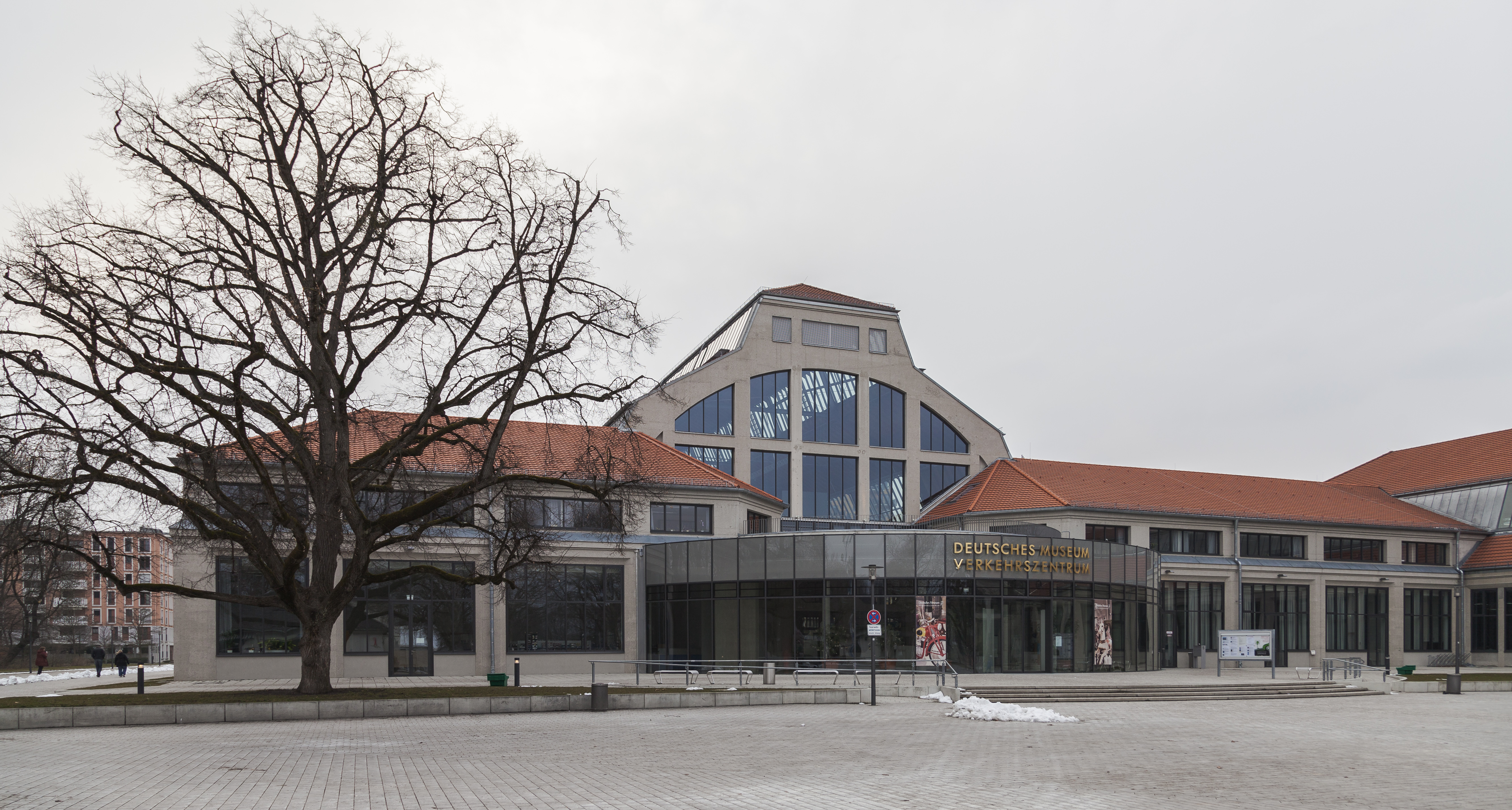 Deutsches Museum Verkehrszentrum, Múnich, Alemania